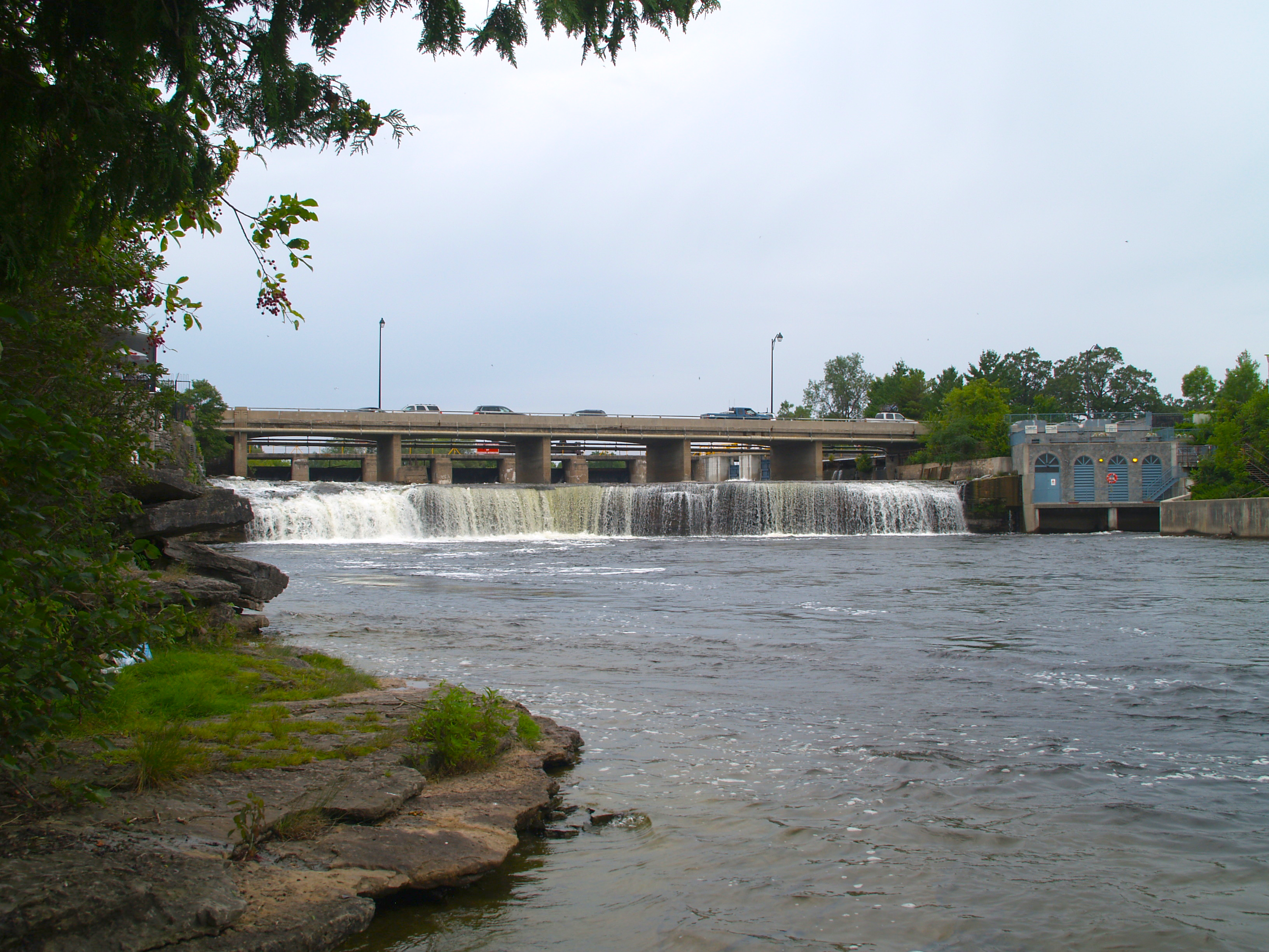 The eponymous Fenelon Falls, with the power generating station to the right